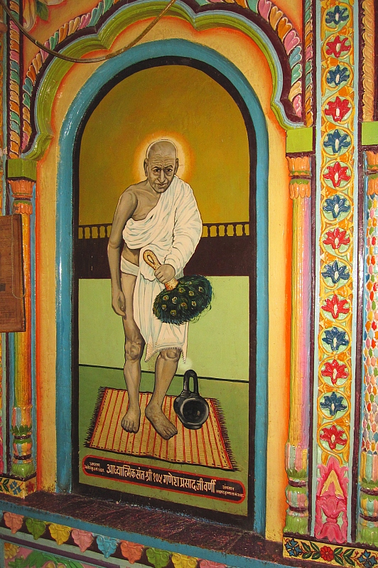 A mural depicting Ganeshprasad Varni at a Jain temple in Katni, MP, India.